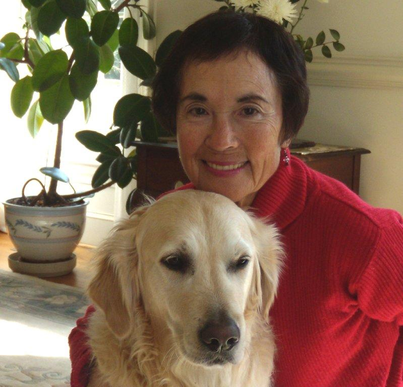 Photograph of author, Maureen Crane Wartski, author of A BOAT TO NOWHERE and YURI's BRUSH WITH MAGIC